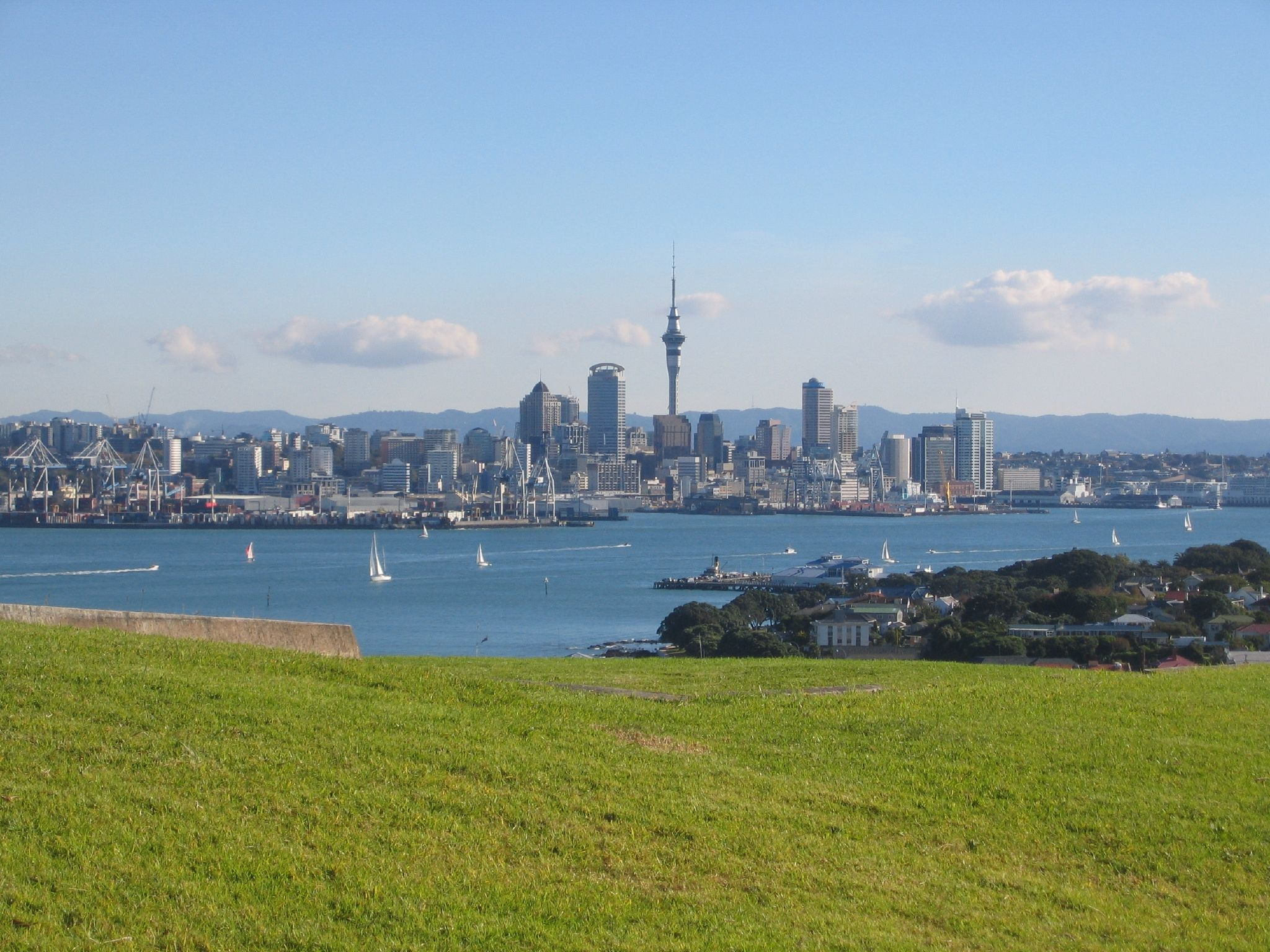 The city's landscape is dominated by volcanic hills, the twin harbours, bays, beaches and islands. Its nickname 'the city of sails' is very apt.